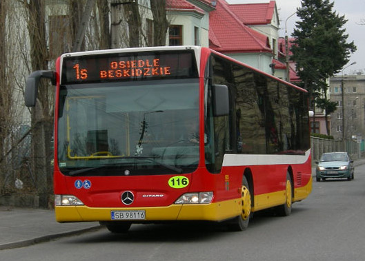 Mercedes-Benz O530 Citaro K (#116) in Bielsko-Biała, Poland. Built 2007, MZK Bielsko-Biała operator.